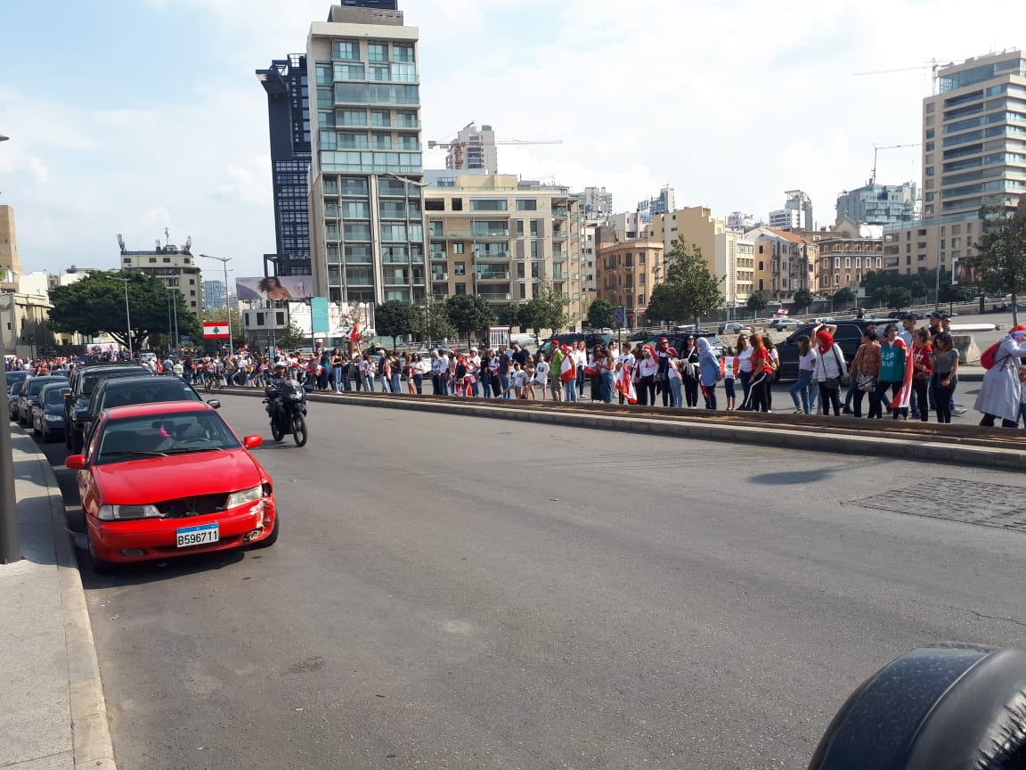 Protests in Lebanon, Human chain in CentralBeirut